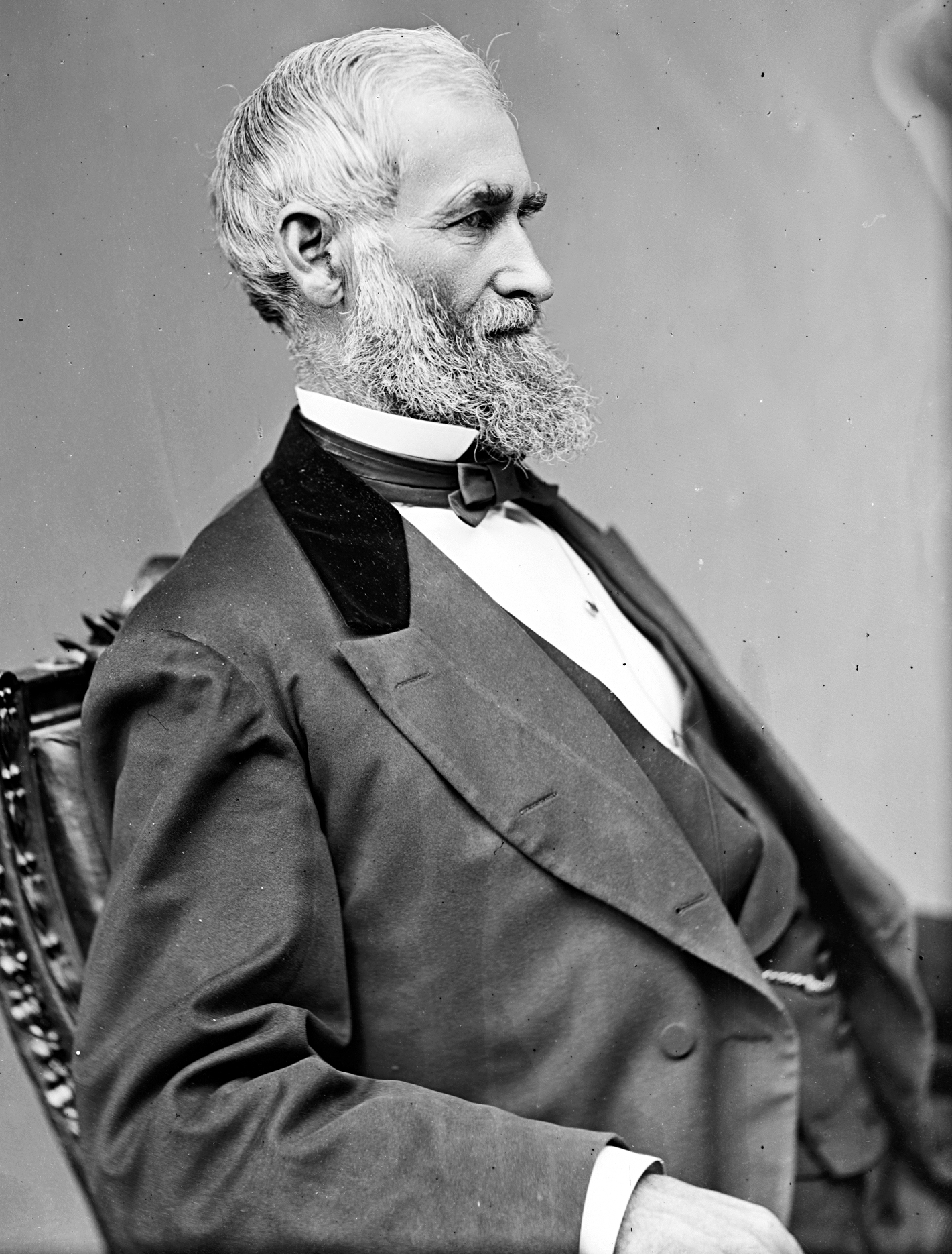 Josiah Begole, Governor and Representative from Michigan